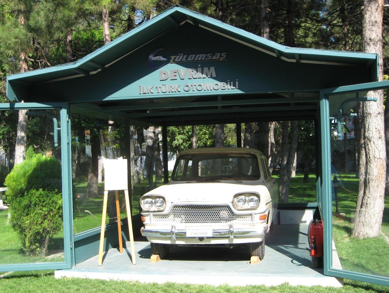 First Turkish car, Devrim. Produced four samples, one is at Tülomsaş (Producer, state company).